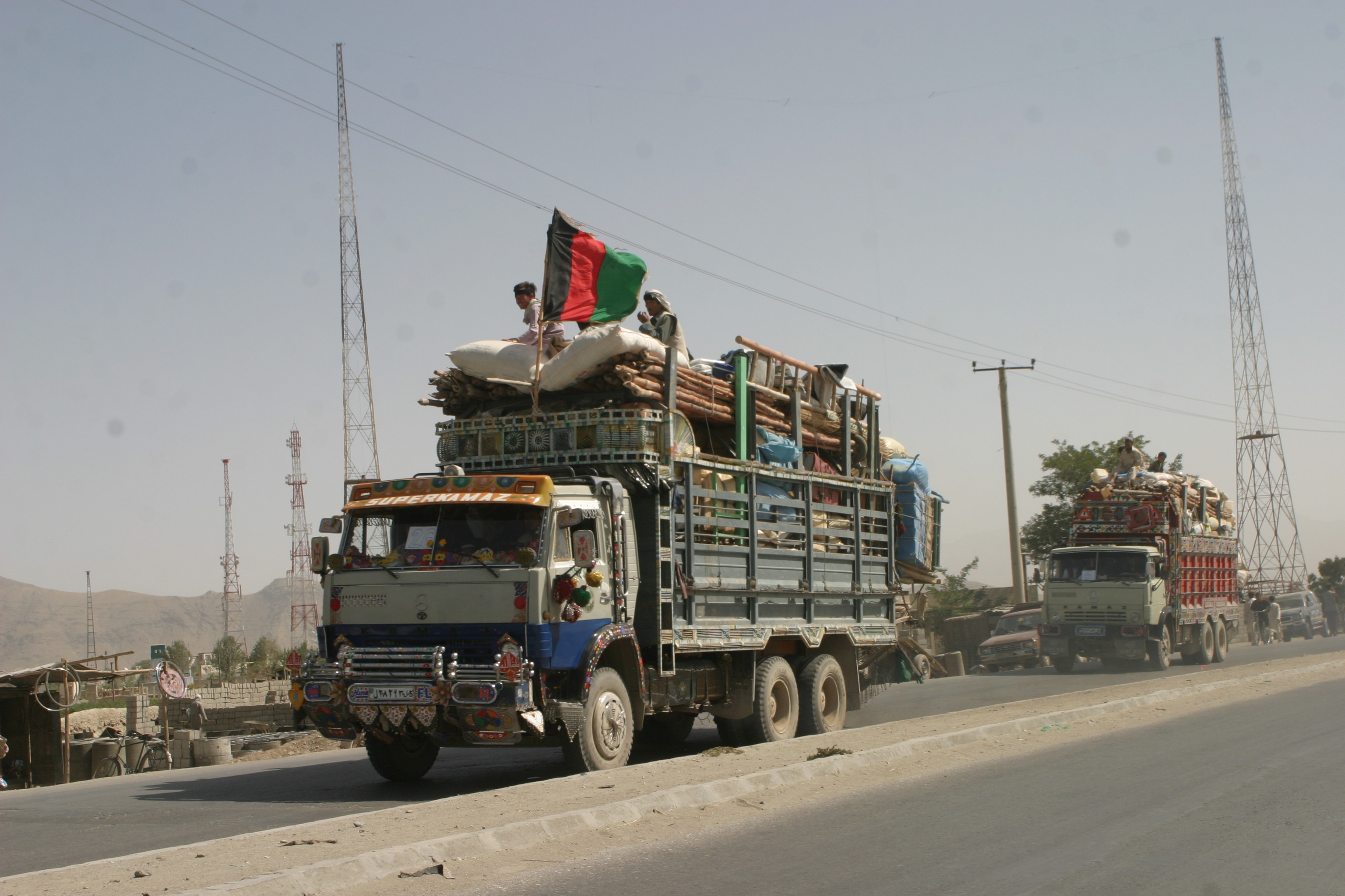 A truck loaded with Afghan refugees returning from Pakistan after years in exile pulls into the UN reception center in Kabul before bringing the Afghans back to their villages.